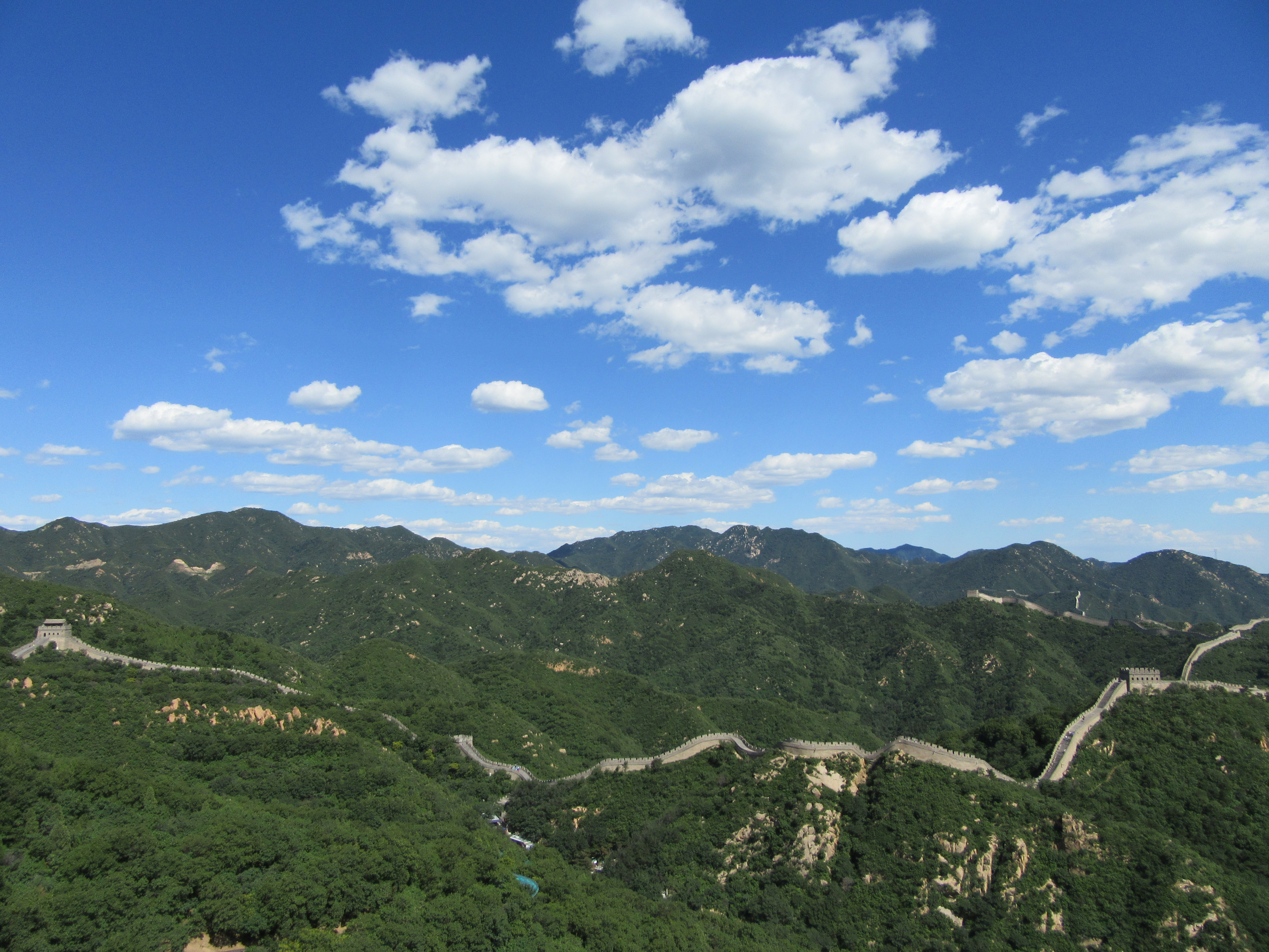 The Great Wall of China at Badaling